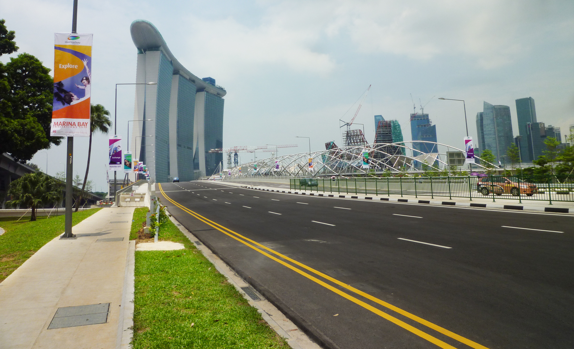 Marina Bay Sands Hotel, Bayfront Avenue and The Helix Bridge, Singapore.